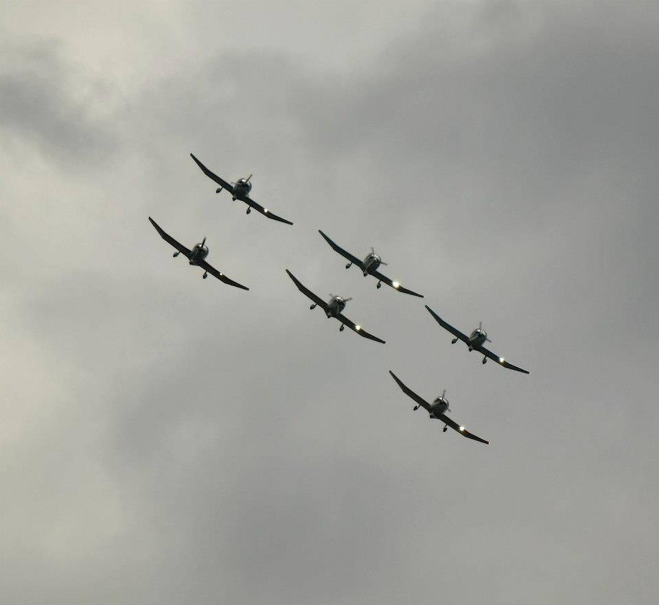 Victor Romeo Formation, demo team of Rotterdam Flying Club